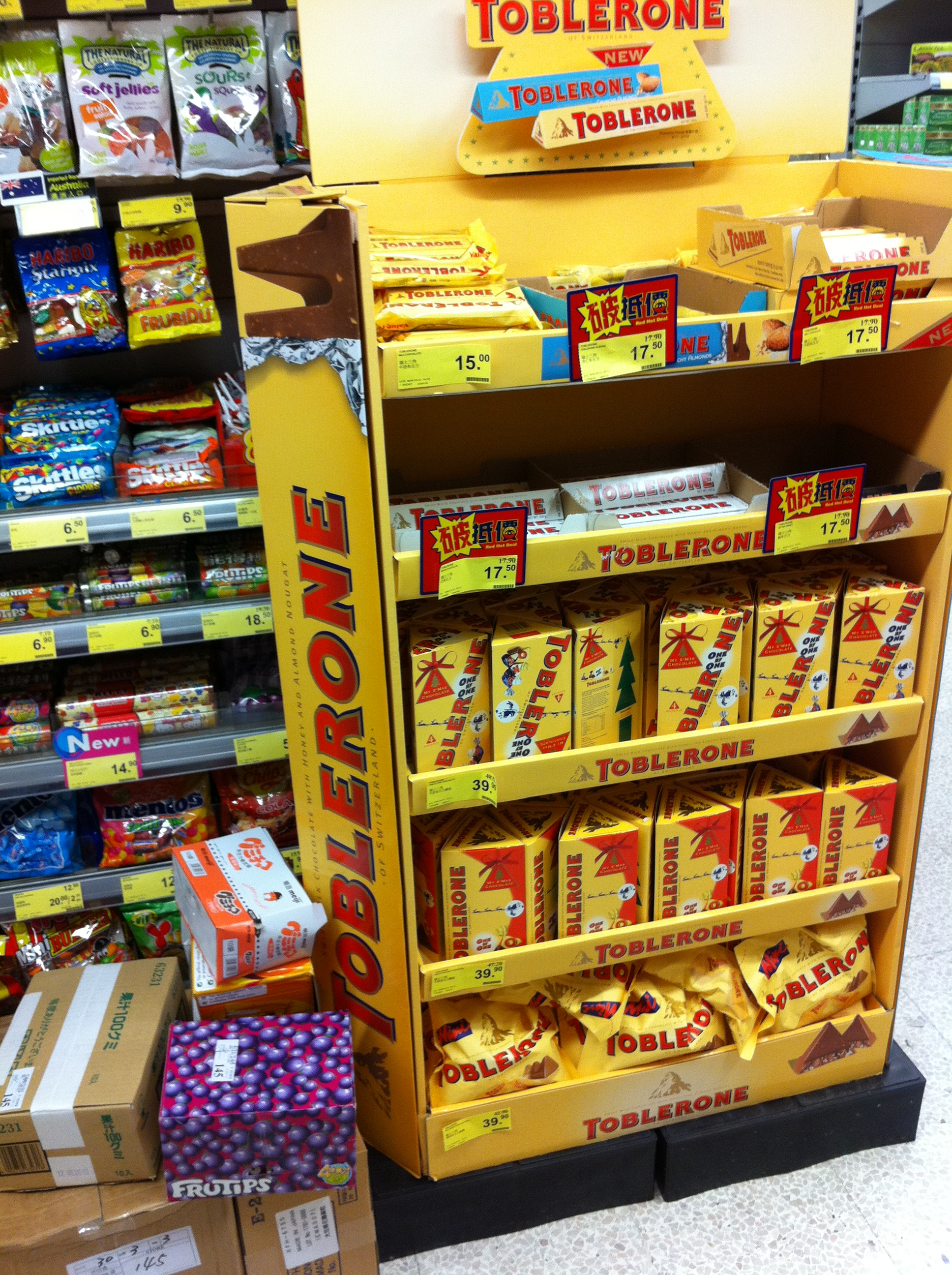 Toblerne chocolates present in Parkn Supermarket, Hong Kong